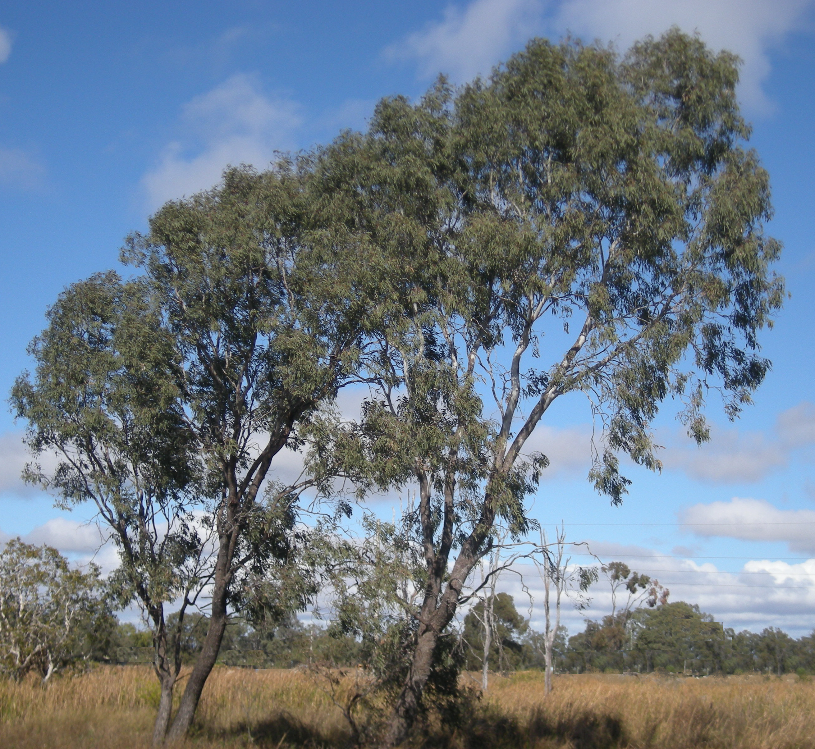 Eucalyptus coolabah trees in the Fitzroy River floodplain, Queensland, Australia.